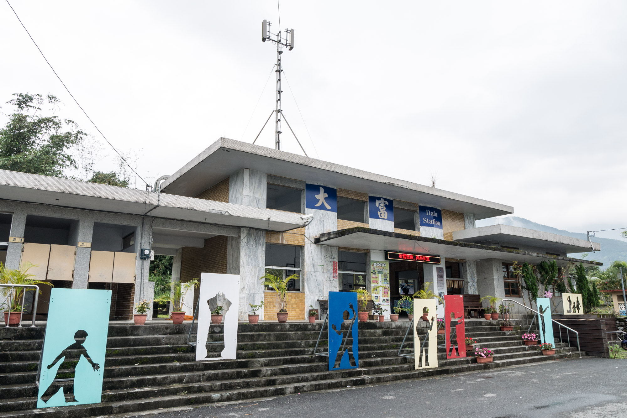 Dafu Station, Taiwan Railway Administration.